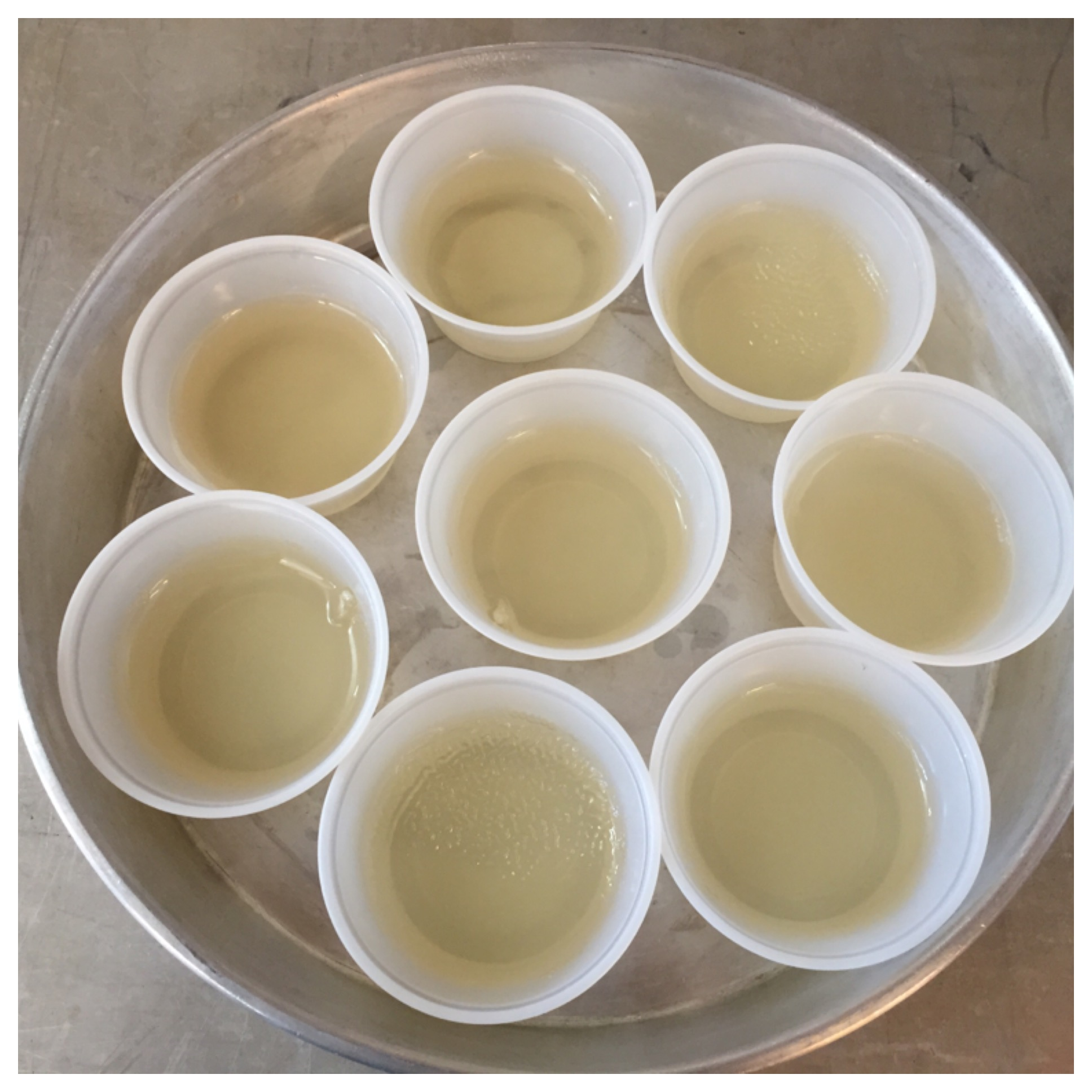 An alcoholic gelatin shot.